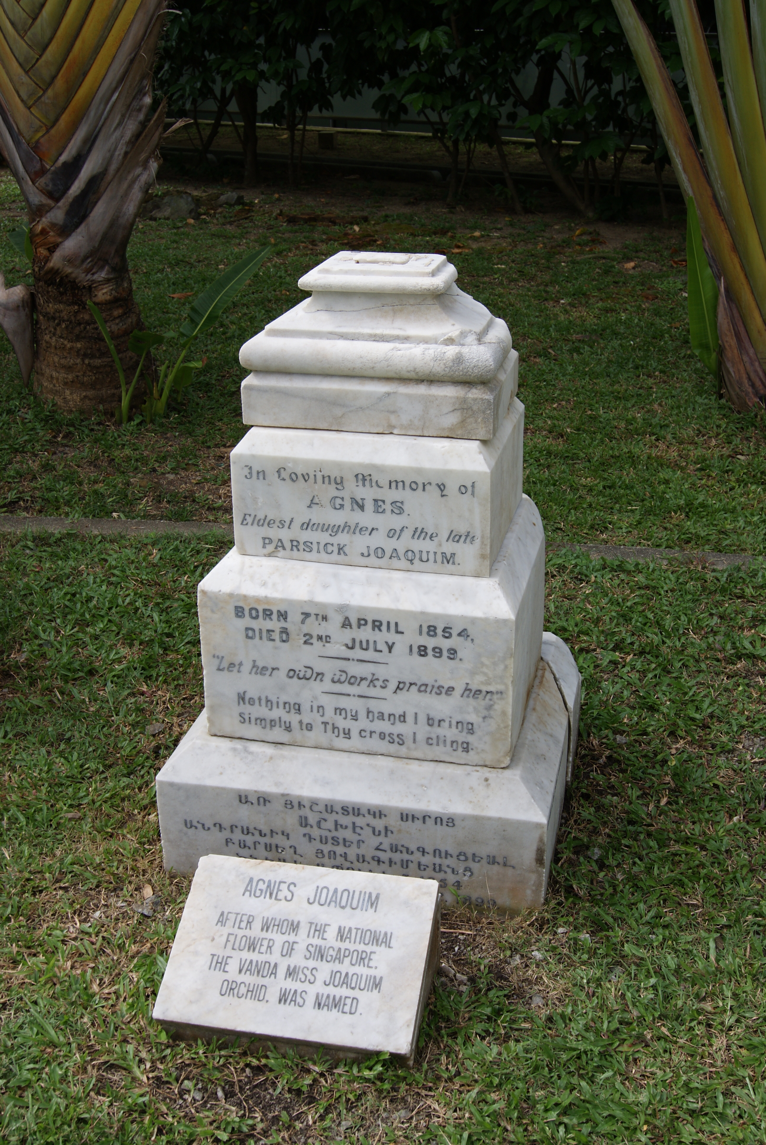 Gravestone of Agnes Joaquim (7 April 1854 – 2 July 1899) in the garden of the Armenian Church, Singapore. The eldest daughter of Parsick Joaquim, Agnes bred the Vanda 'Miss Joaquim' which is Singapore's national flower.